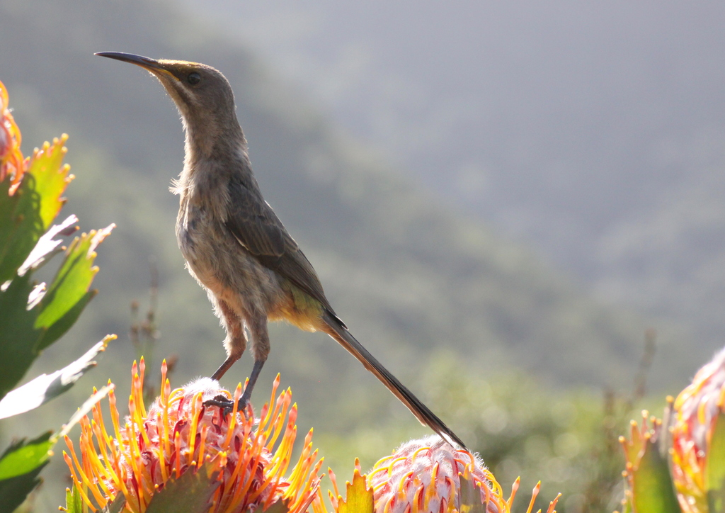 Promerops cafer Cape Sugarbirds, male and female. I was lucky, shooting with a 90 mm macro lens when the birds landed in front of my face, on the flower I was photographing. It happened TWICE, which has never happened ONCE before in 20 years!